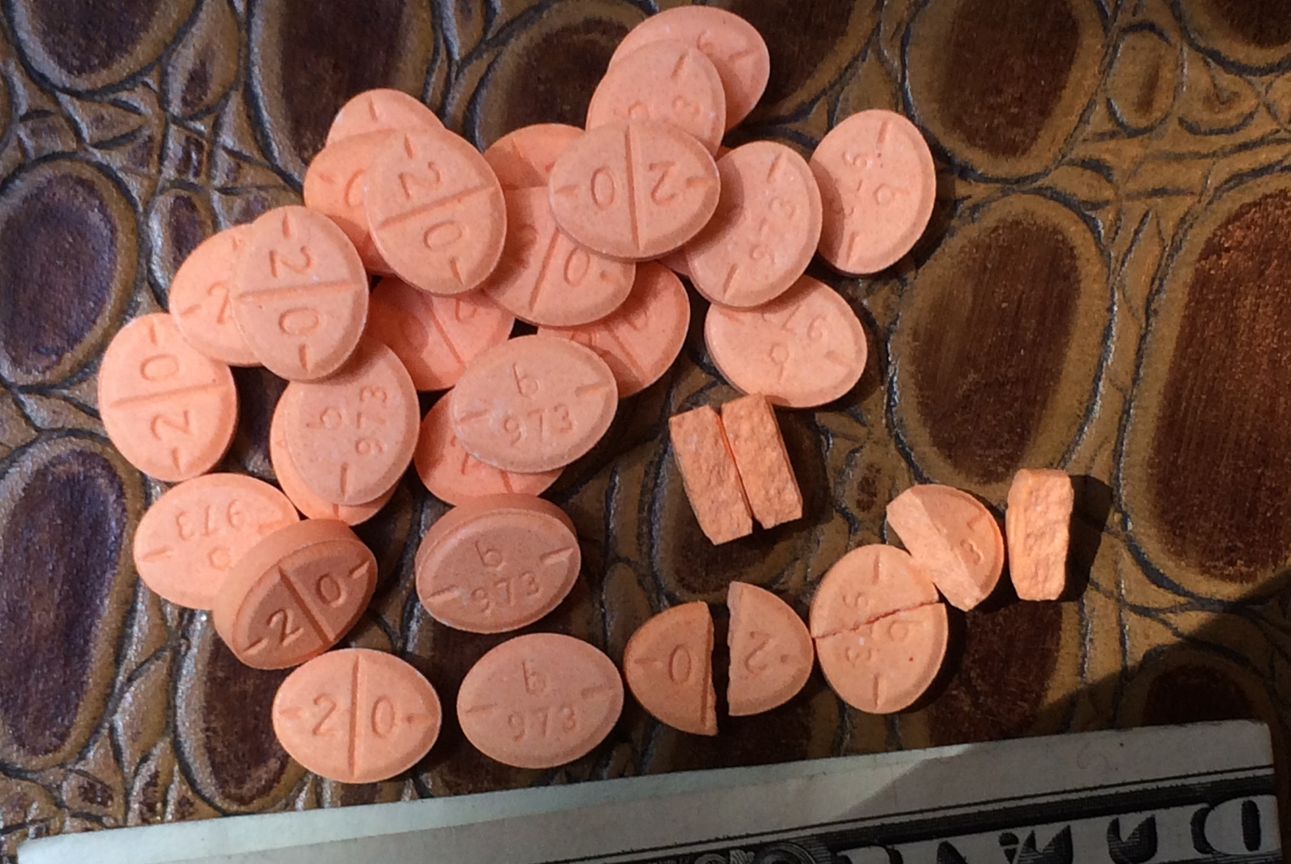 An image of a common prescription amphetamine salt formulation, Adderall, with, along the bottom, the edge of a US dollar bill folded in half (3.07 inches; 7.8 cm) for size comparison. This tablet contains salts of both levoamphetamine and dextroamphetamine.